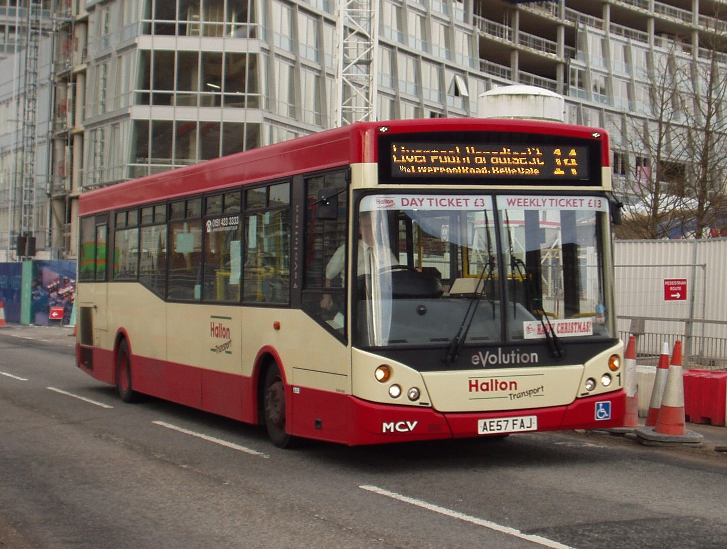 Halton Transport bus no.1, MCV Evolution bodywork on Dennis Dart 4 chassis.